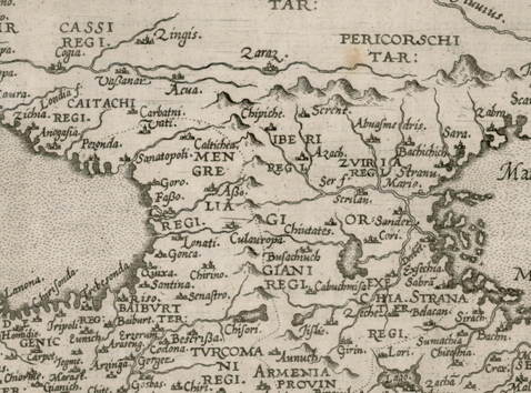 First edition of De Jode's highly desirable map of the region, bounded by the Black Sea and Mediterranean in the West and Afganistan and Central Asia in the East. Cyprus is prominently shown in the Eastern Mediterranean. The 579 edition of the map pre-dates the appearance of the name "Meotis" in the Mare de le Zabache (Sea of Azov). Palus Meotis was the ancient name for Sea of Azof, with references to the name dating back to Strabo and before. De Jode's was a contemporary of Ortelius. His Speculum Orbis did not enjoy the same commercial success as Ortelius, making his maps very scarce and highly desirable. This map was engraved by the van Deutecum brothers and is based upon an earlier map by Gastaldi.